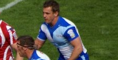 Harlequins vs Salford 2009 Murrayfield Magic